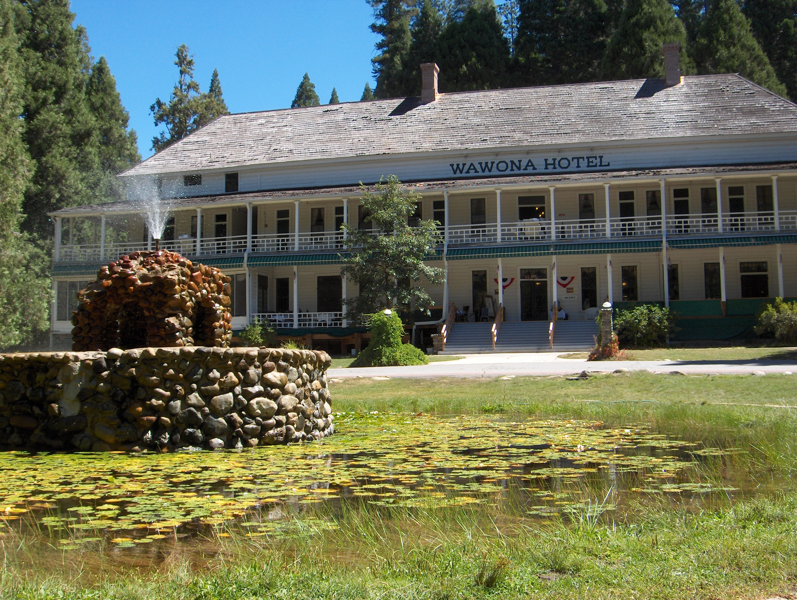 A view of the Wawona Hotel — located in southwestern Yosemite National Park, California. On the National Register of Historic Places in Yosemite National Park.